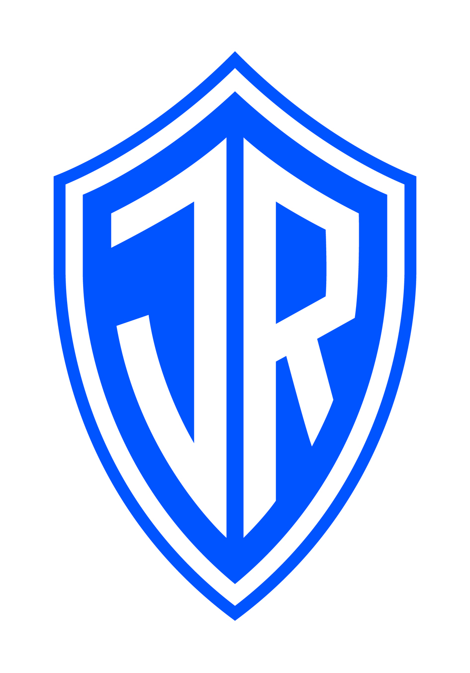 This is the emblem of the sport organization Íþróttafélag Reykjavíkur